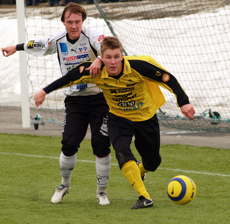 Striker Kalle Parviainen of KuPS Kuopio (in yellow) slowed down by a Kings Kuopio midfielder. Parviainen has been since 2006 with FC Haka and has played as a defender. Picture from training match between KuPS and Kings Kuopio at Magnum Areena.